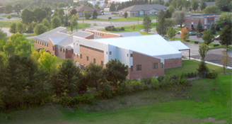 Adjusters International Corporate Building